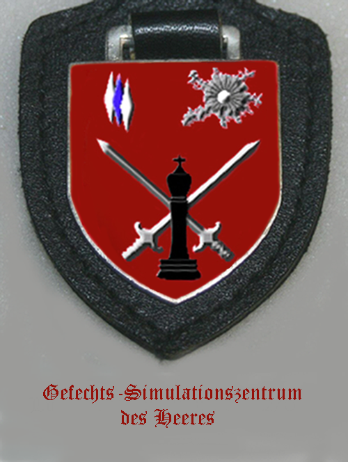 (Internal) coat of arms Gefechtssimulationszentrum des Heeres of the Bundeswehr (Armed Forces of the Federal Republic of Germany). → Remarks on naming and categorization scheme